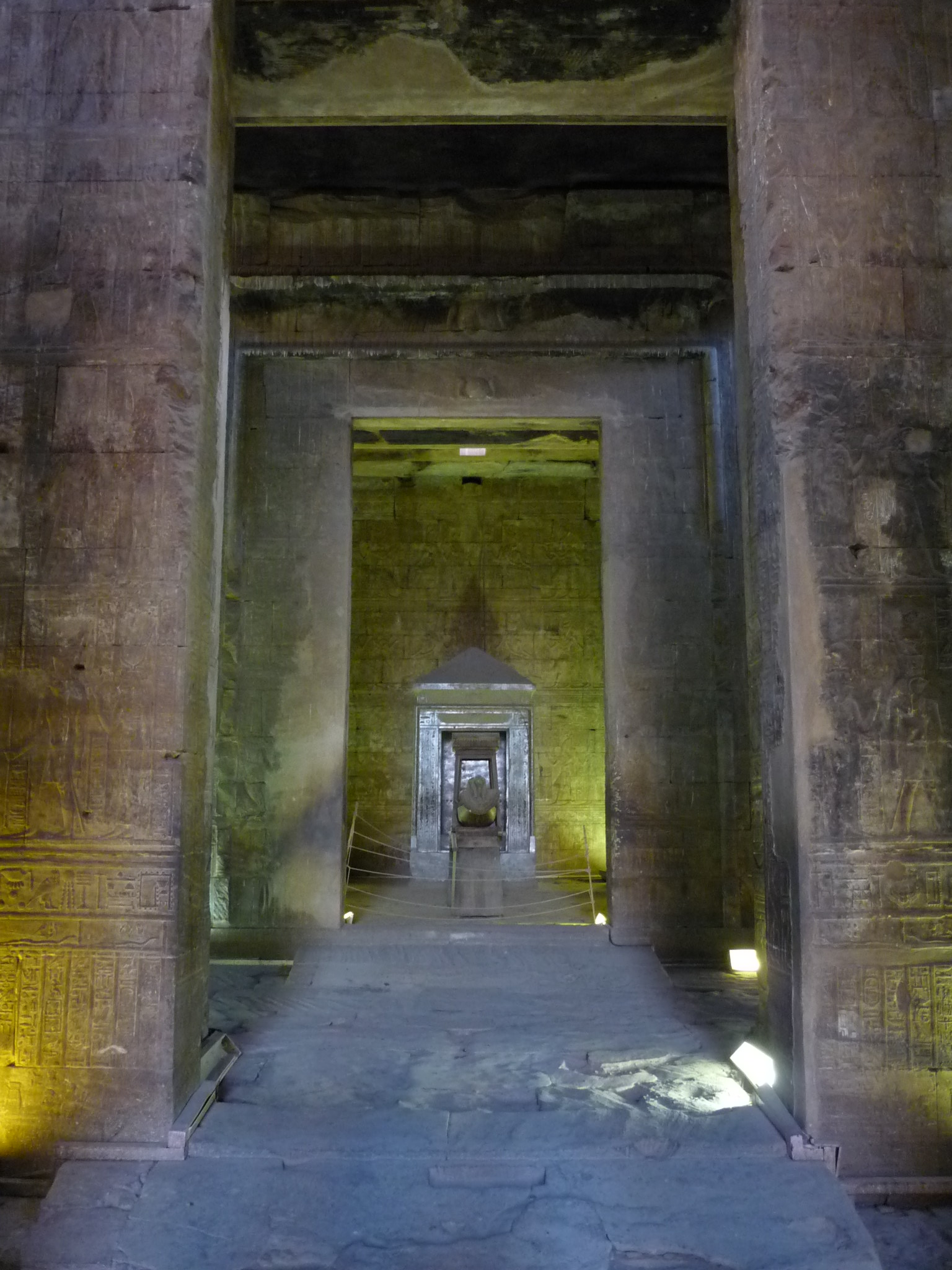 Sanctuary entrance, temple of Edfu, Egypt